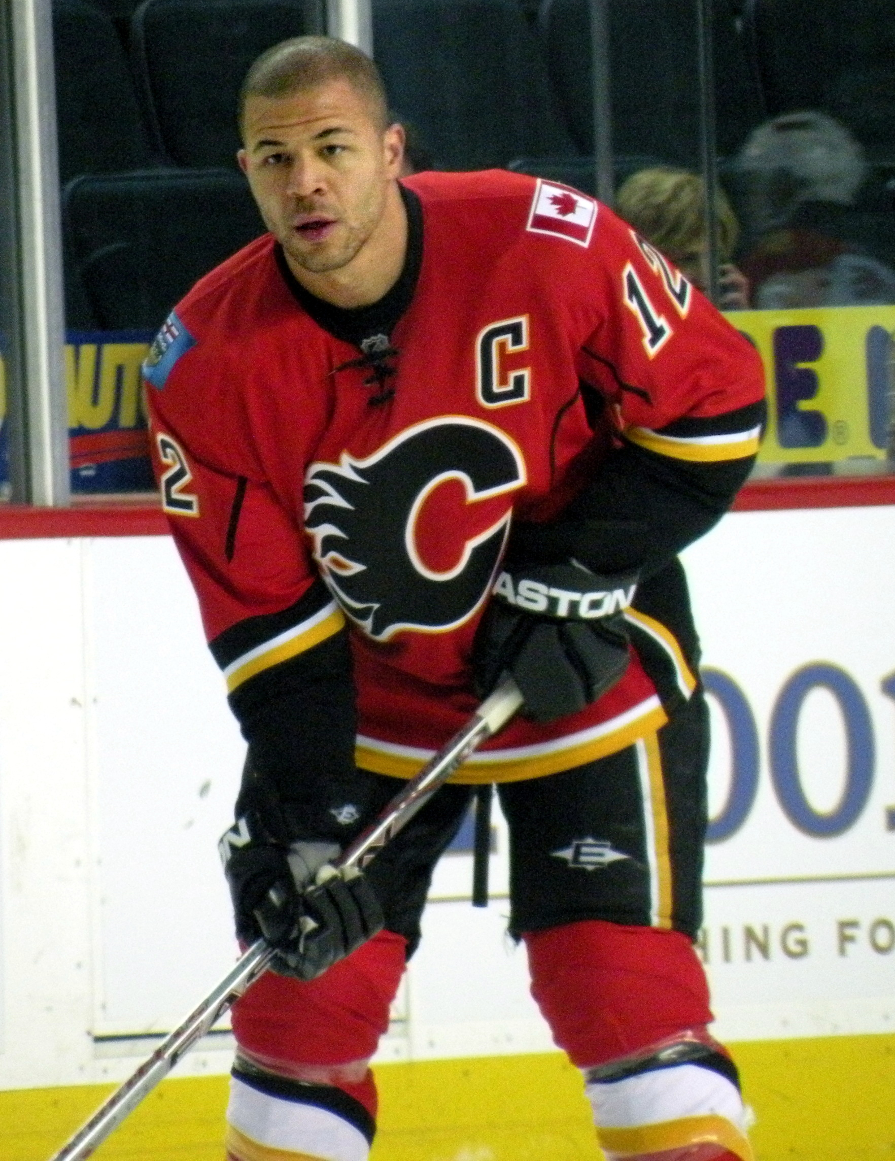 Calgary Flames captain Jarome Iginla during warm-up prior to a National Hockey League game against the Florida Panthers in Calgary.